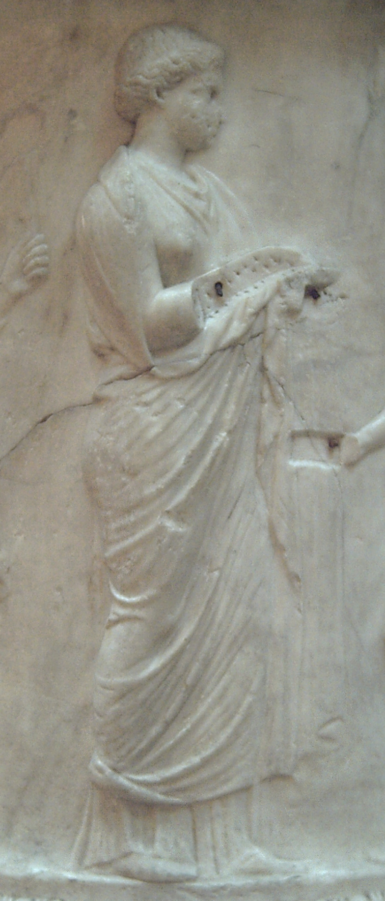 Relief figure of moira Atropos.